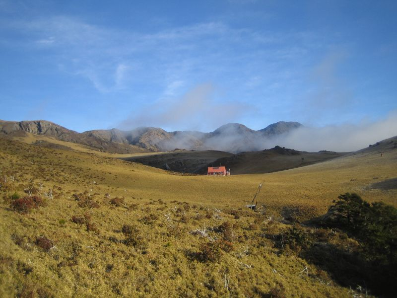 Dashueiku Cabin in the middle of Dashueiku's grassland.